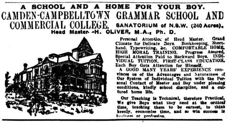 Advertisement for Camden-Campbelltown Grammer School at Studley Park, Camden NSW placed in a Queensland newspaper in 1908.